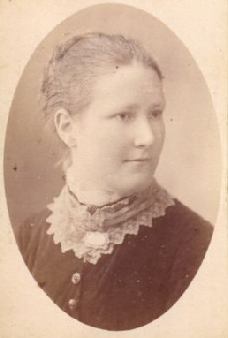 Clara Southern (3 October 1861 – 15 December 1940) was an Australian artist associated with the Heidelberg School, also known as Australian Impressionism.